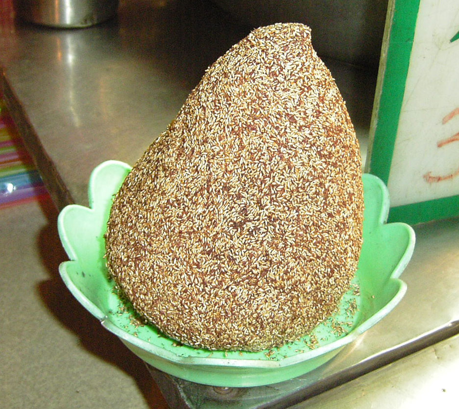 Dried Aiyu(F. pumila var. awkeotsang) fruit from Taipei, Taiwan. It's inside out, each dots are the aiyu seeds. Taiwanese unique jelly 愛玉子(aiyuzi) is made from this dried fruit.